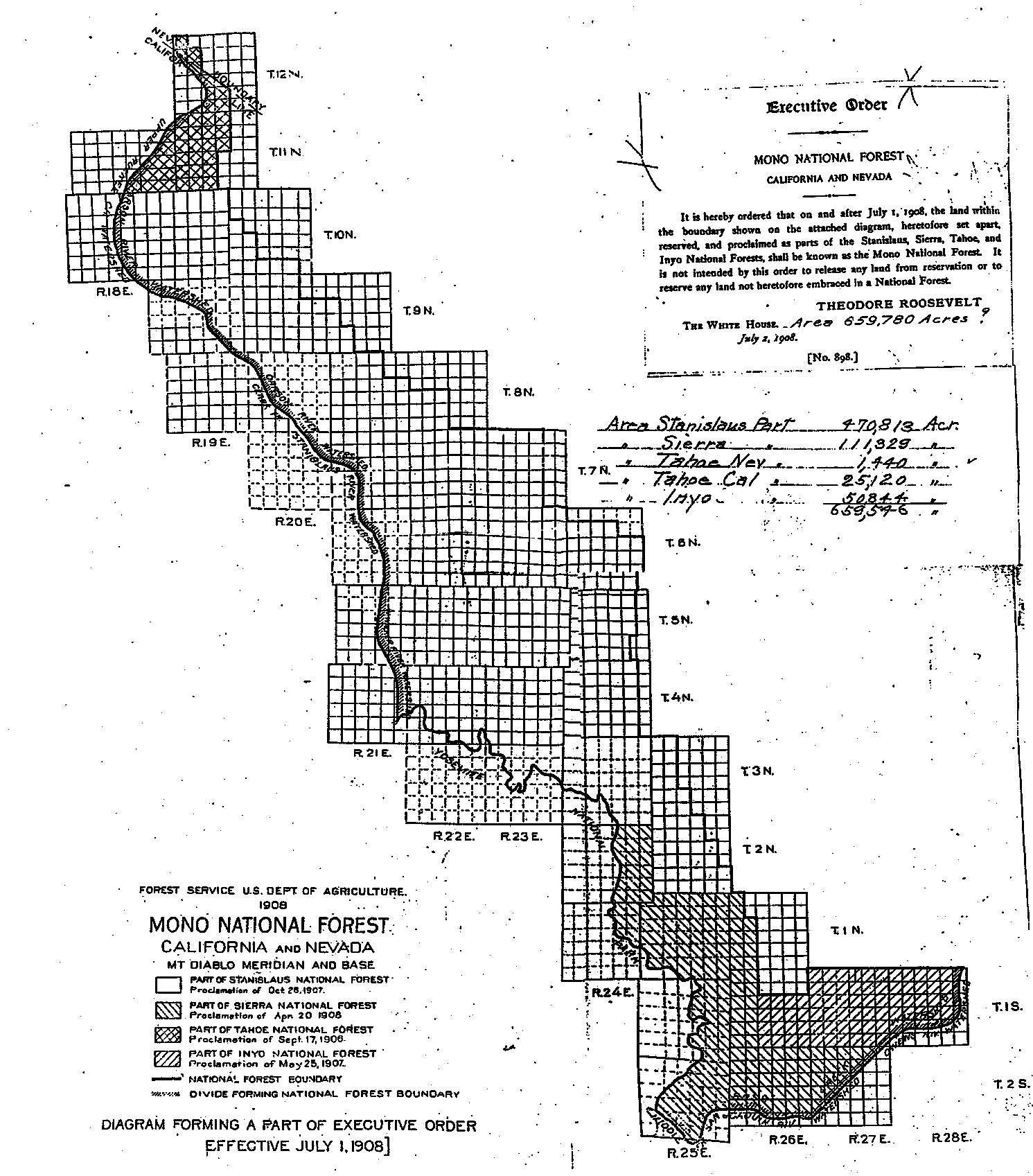 Illustration of the Mono National Forest in California and Nevada. This map is an attachment to Executive Order 898 which originally defined the forest in 1908. In 1945, the forest was split between the Inyo National Forest and the Toiyabe National Forest. A copy of the printed executive order is attached at the top right.